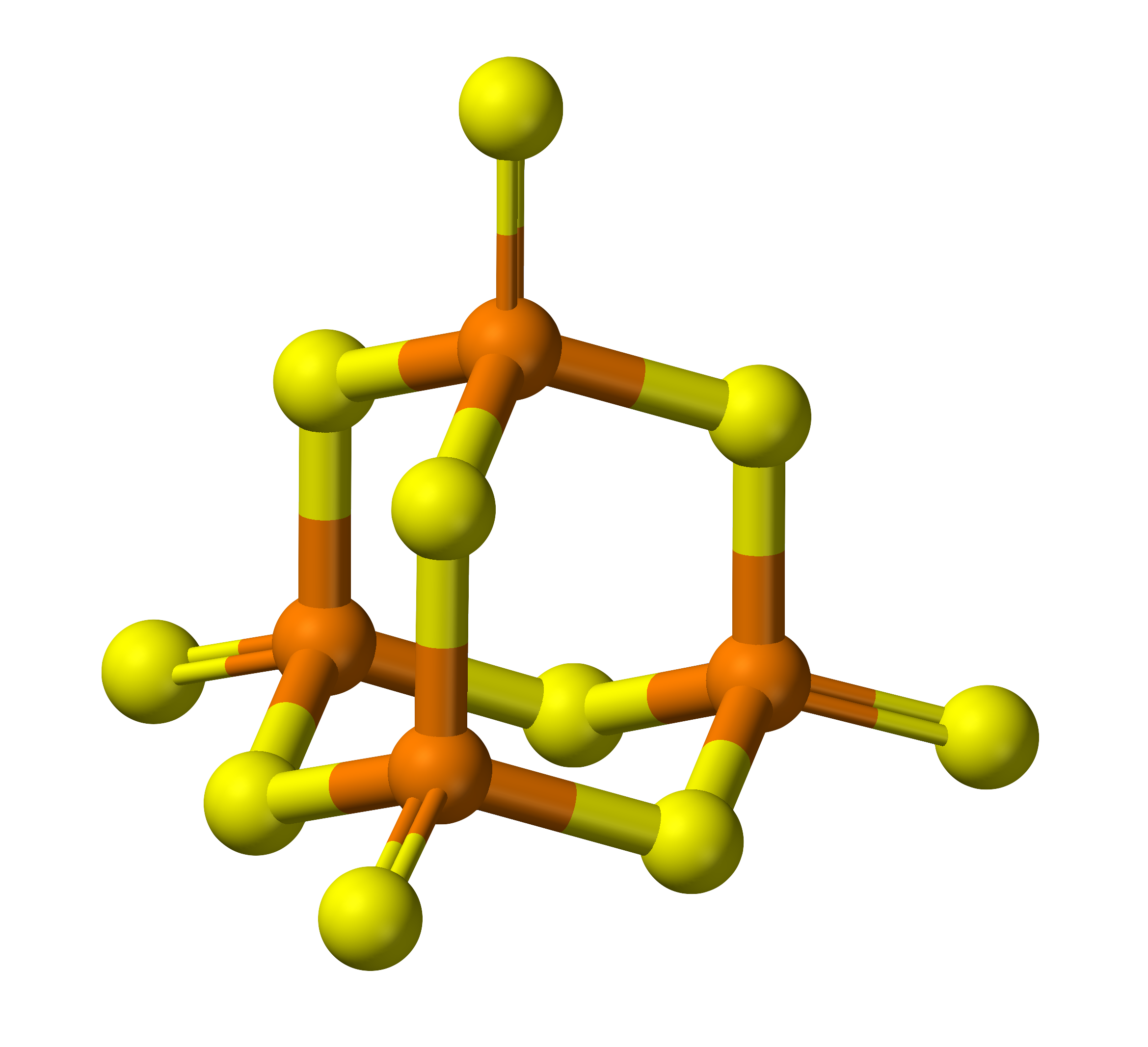 Ball-and-stick model of the phosphorus pentasulfide molecule, P4S10, as found in the crystal structure. This image is based on the crystal structure refinement reported in R. Blachnik, J. Matthiesen, A. Müller, H. Nowottnick, H. Reuter, Refinement of the crystal structure of 1,3,5,7-thioxo-2,4,6,8,9,10-hexathia-1,3,5,7-tetraphosphatricyclo[3.3.1.13,7]decane, tetraphosphorus decasulfide, P4S10, Z. Kristallogr. New Cryst. Struct. 1998, 213, 233-234 (or 247-248 according to the publisher's website), 10.1524/ncrs.1998.213.14.247. Colour code: Phosphorus, P: orange Sulfur, S: yellow Image generated in Accelrys DS Visualizer.